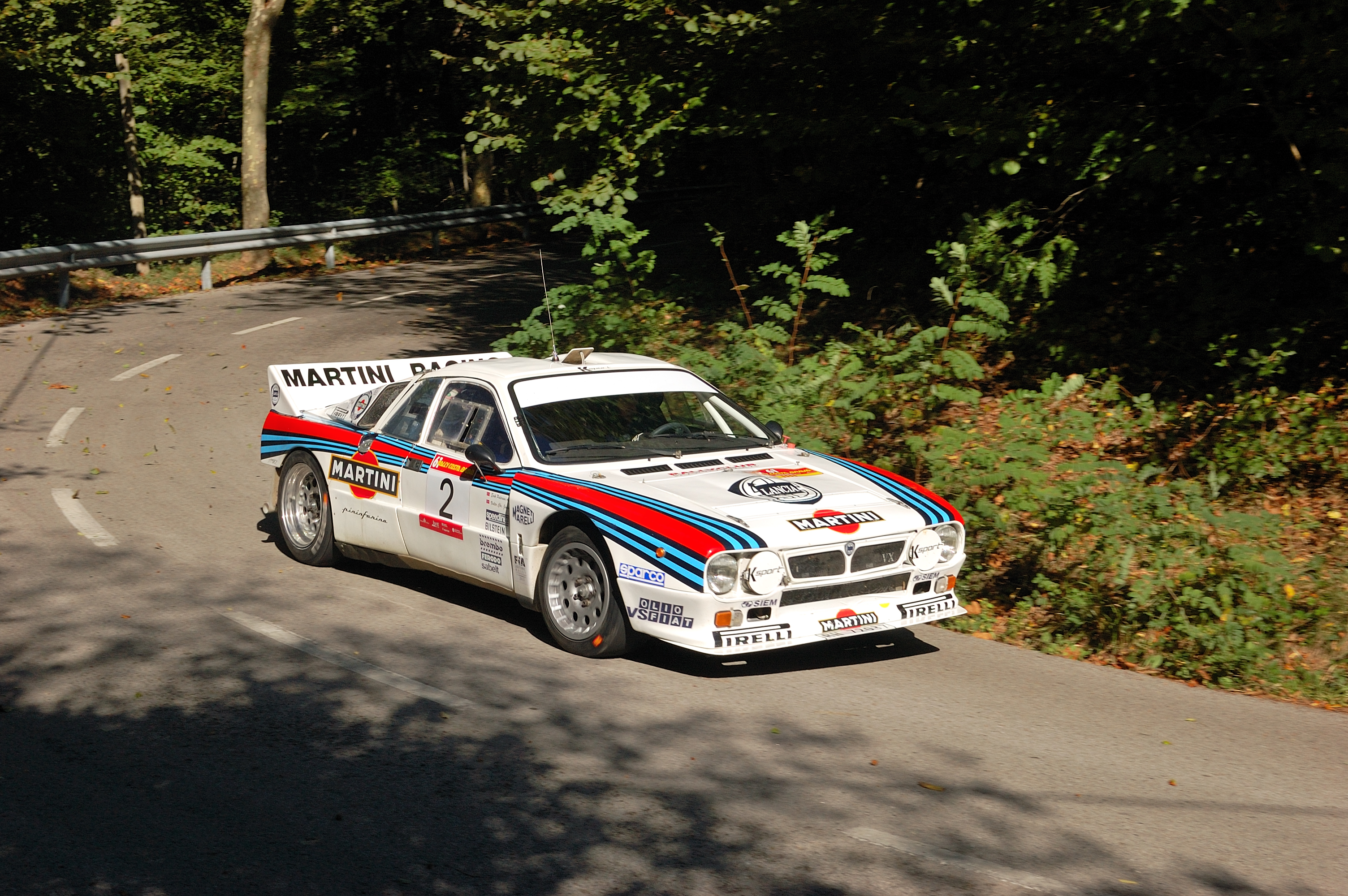 Valter Ch. Jensen-Erik Pedersen (Lancia Rally 037) Rally Costa Brava 2013